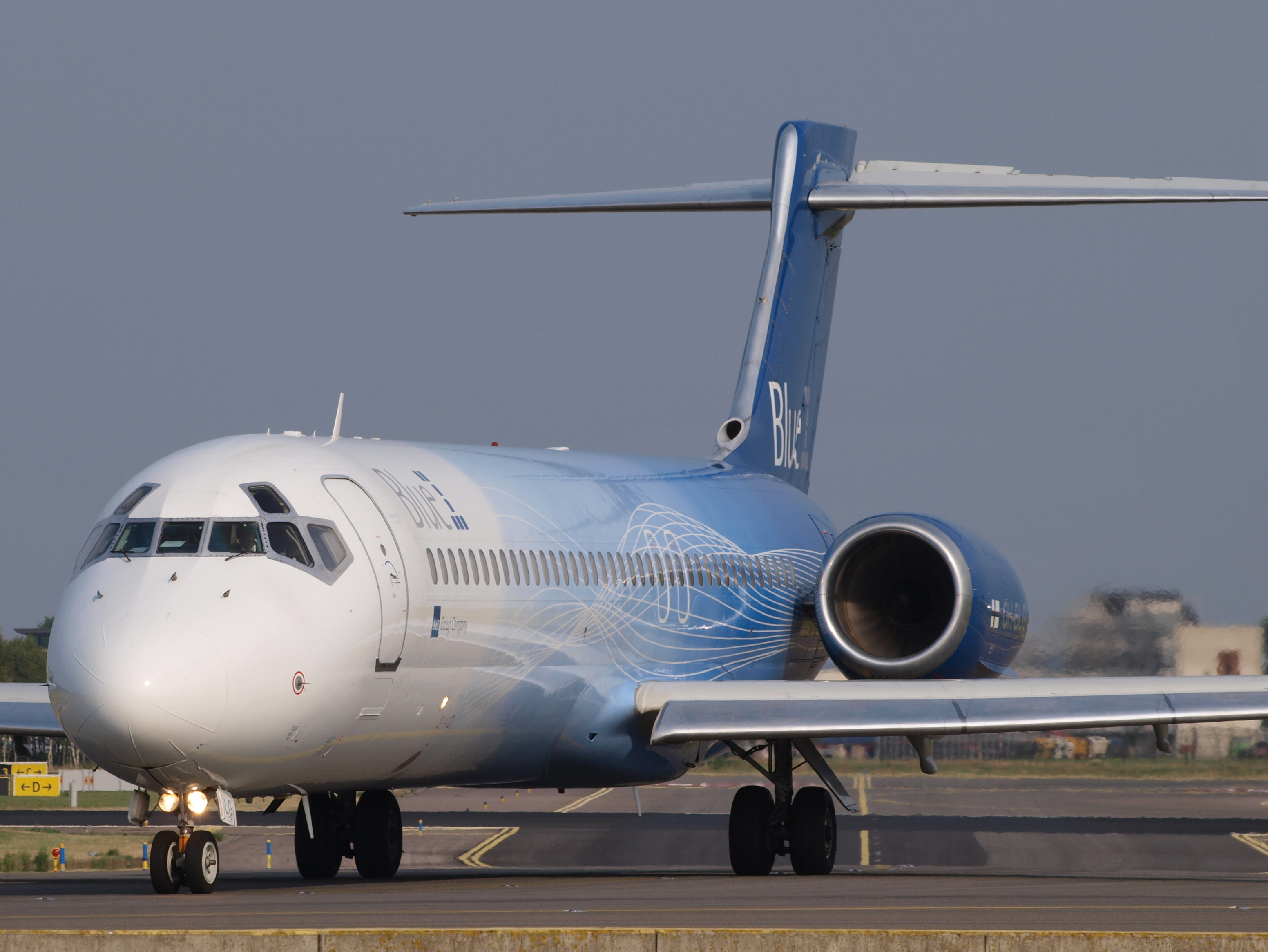 A Blue1 Boeing 717-2CM aircraft (OH-BLG) at Amsterdam Airport Schiphol (IATA: AMS, ICAO: EHAM), the Netherlands.